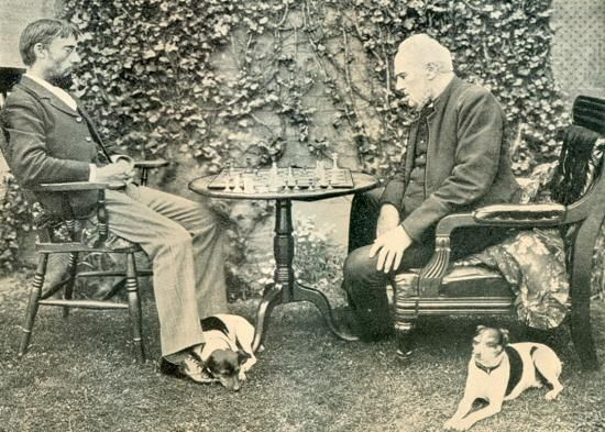 Chess masters Amos Burn and John Owen playing in a garden at Hooton.